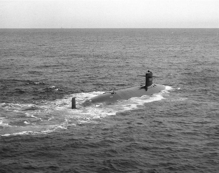 USS Thresher (SSN-593), starboard quarter view, taken while the submarine was underway on 30 April 1961.